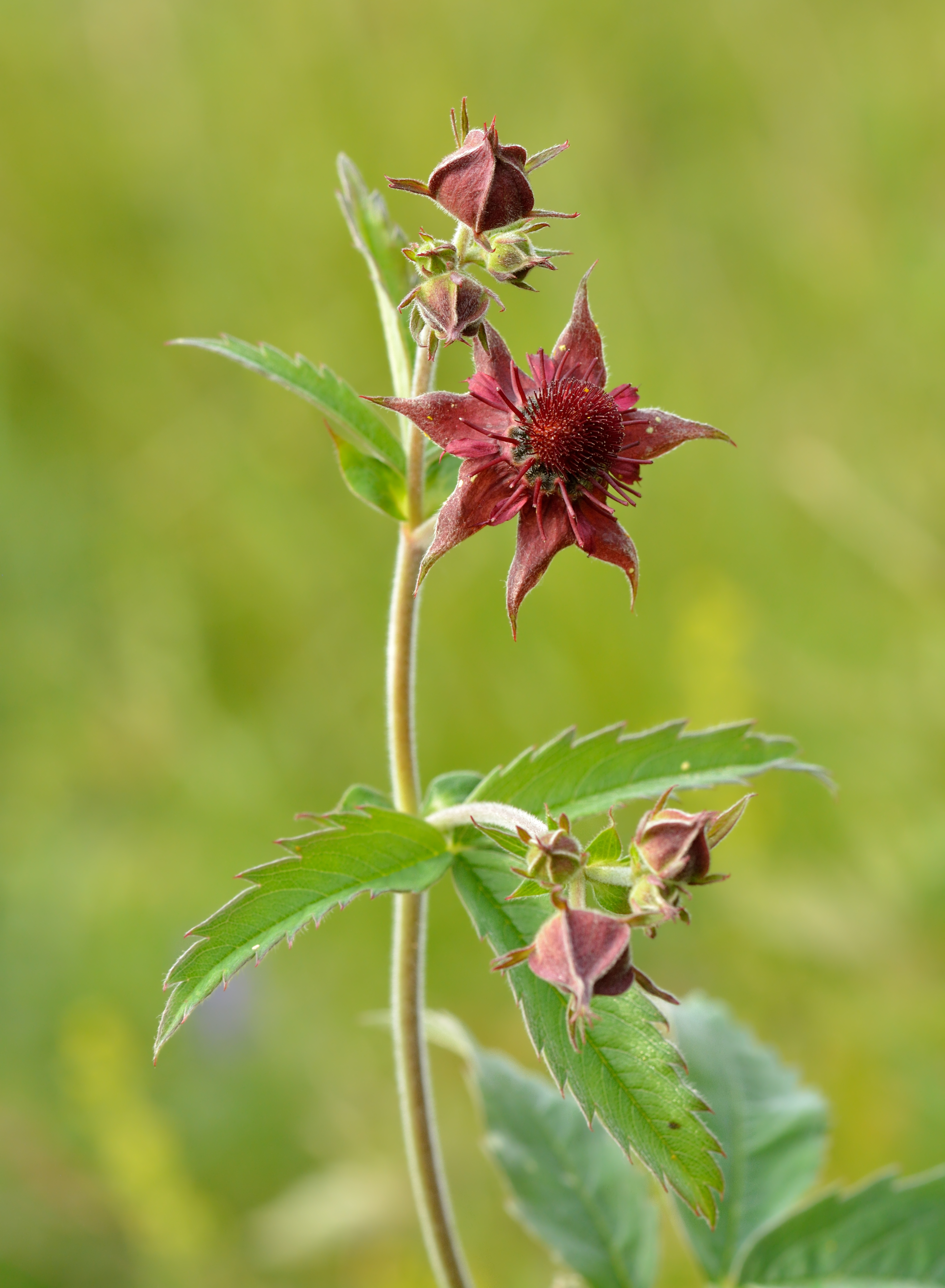 Purple marshlocks (Comarum palustre). Suurupi peninsula.